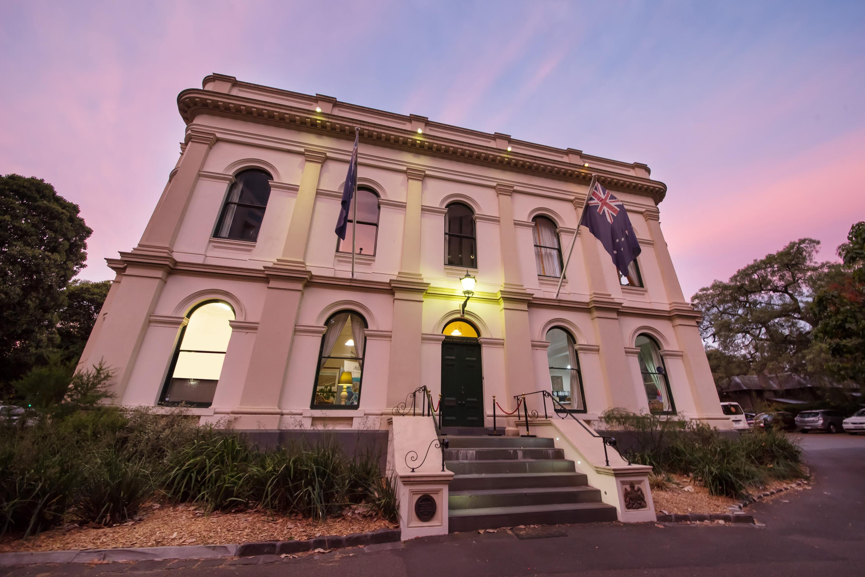 The Royal Society of Victoria's historic headquarters at 8 La Trobe Street, Melbourne. Purpose-built through the contributions of RSV members in 1859 to the design of colonial architect Joseph Reed. Photo taken during the December 2017 President's Soiree, the Society's end of year function. Photo by Adrienne Bizzarri.